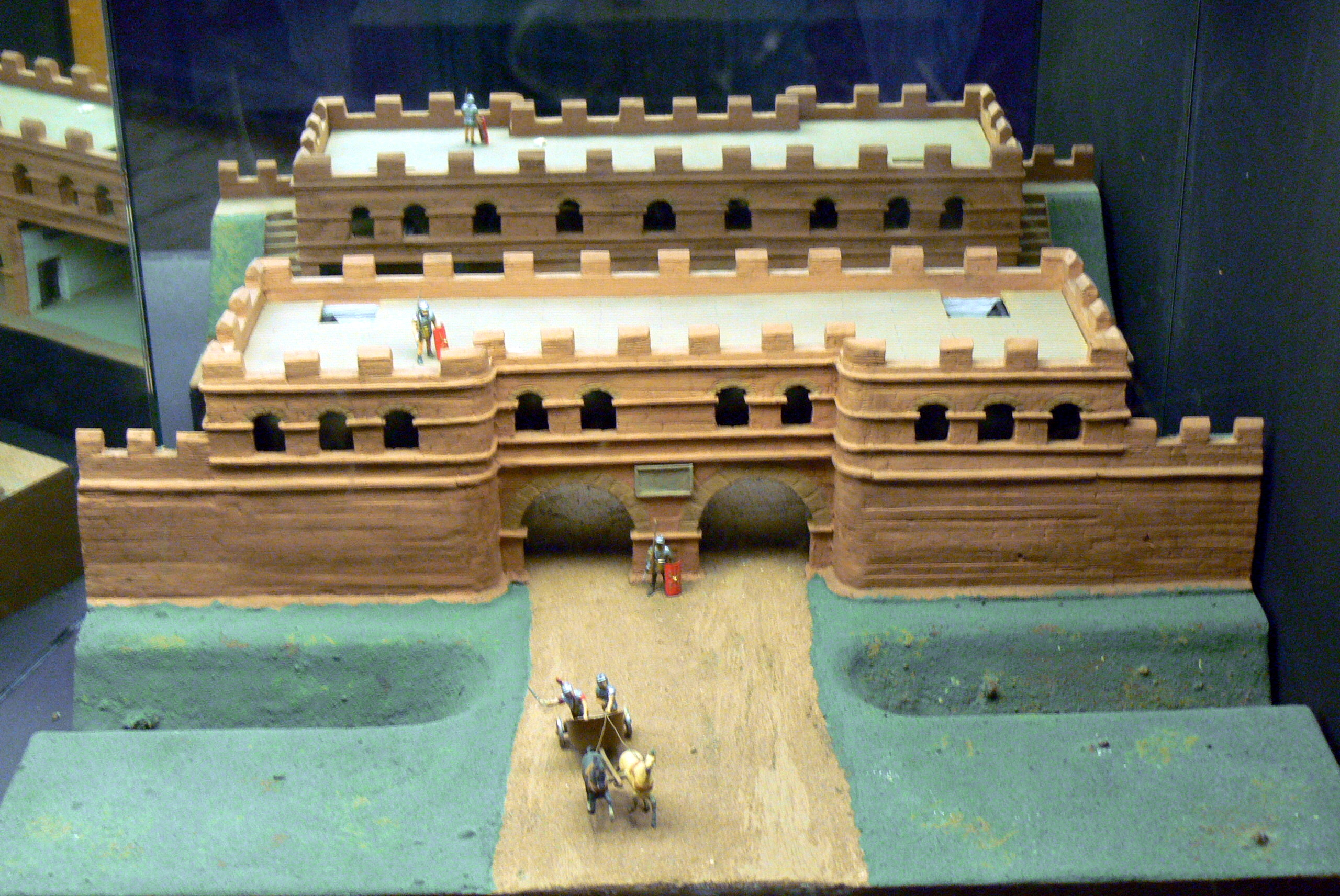 Chester ( England ). Grosvenor Museums: Modell of the eastern gate of Ancient Roman Deva Victrix.